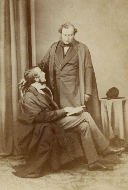 William Selwyn (1806-1875) and Sir Charles Jasper Selwyn (1813-1869)